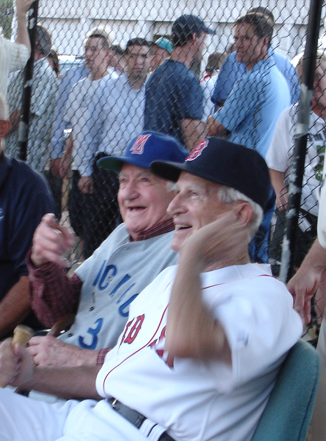 Johnny Pesky and Lennie Merullo at the Old Time Baseball Game in Somerville